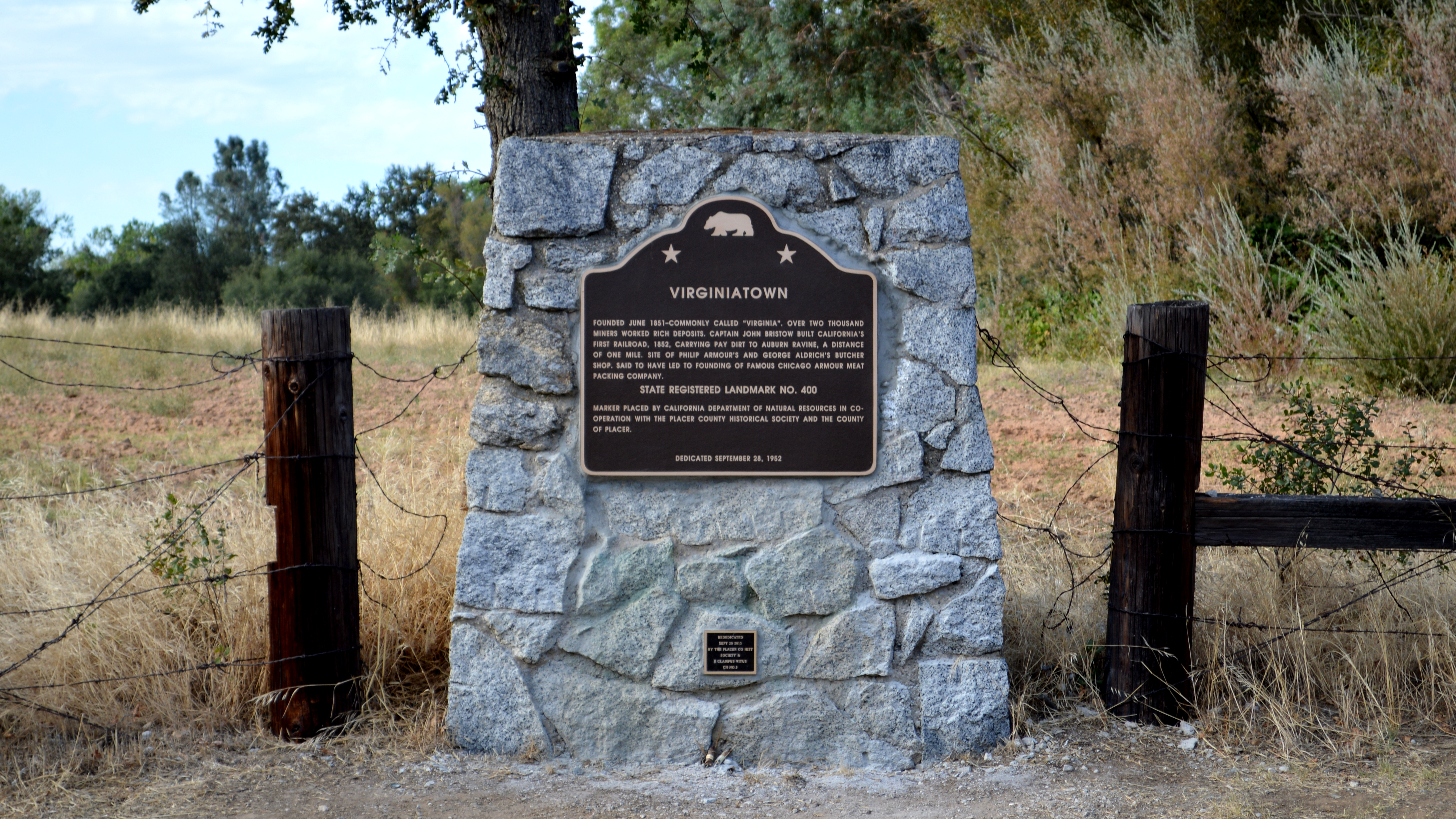 Virginiatown, the new plaque dedicated 2013-09-20